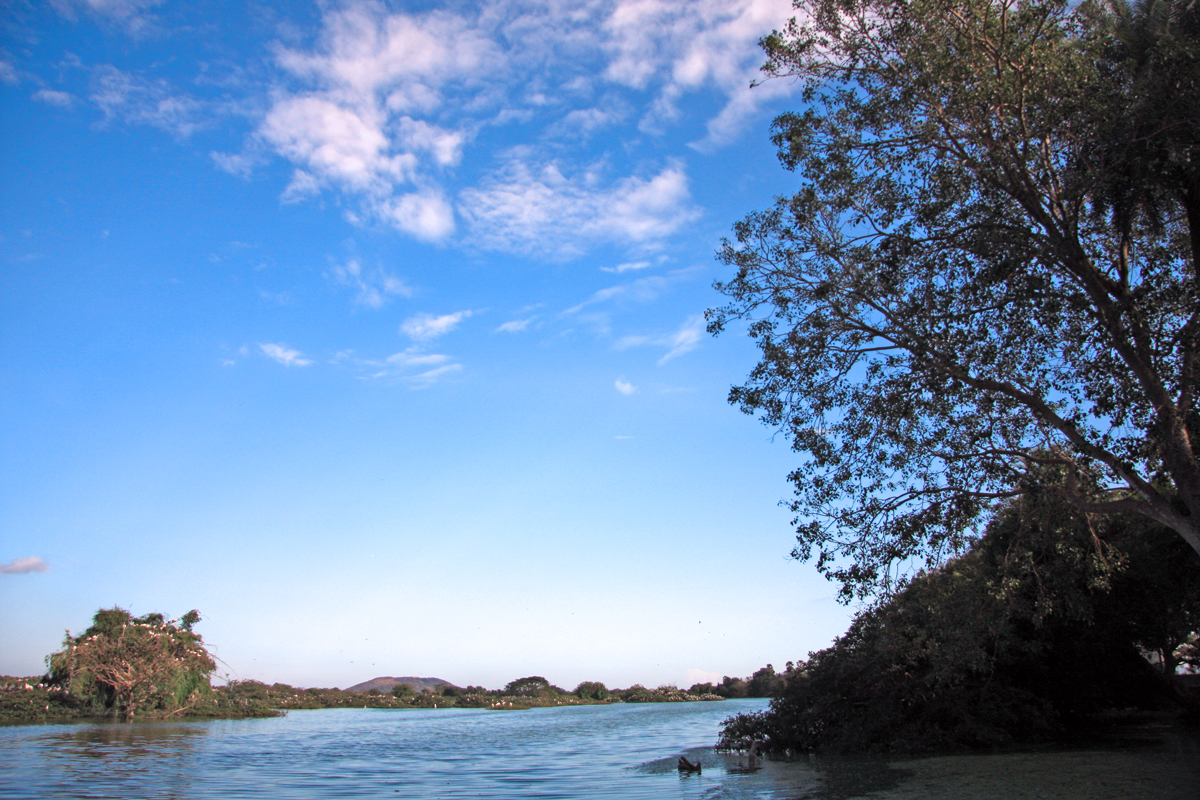 took this shot in vedanthangal bird sanctuary near chennai View my Stream in Fluidr!